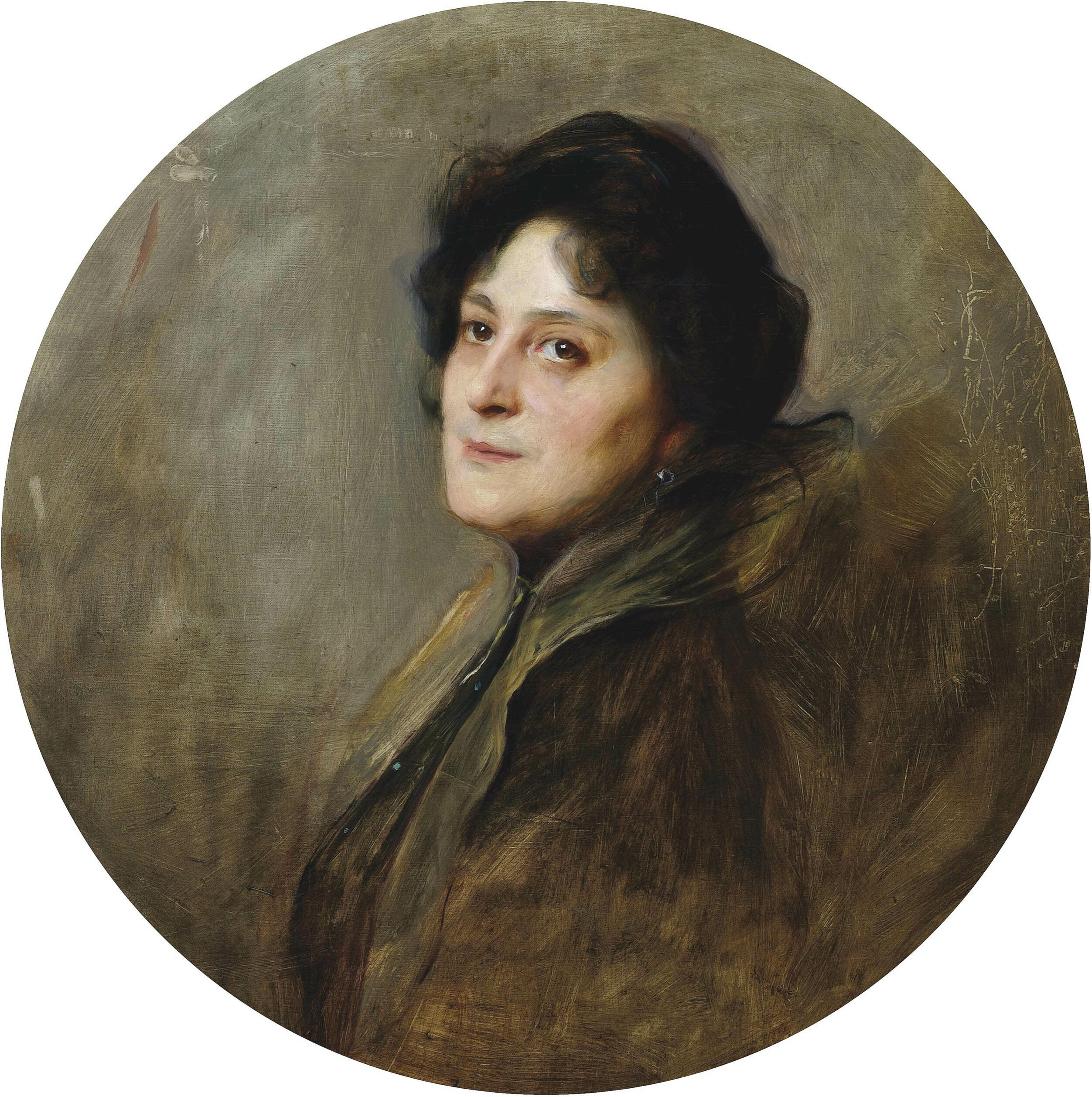 Baronesse Wolff von Stomersee, née Alice Barbi oil on canvas 75 x 75 cm 1901